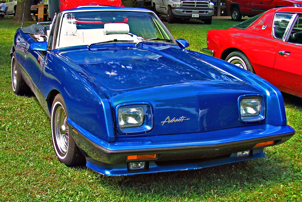 A rare convertible Studebaker Avanti with a fiberglass body that I saw at the regional Studebaker Drivers Club regional show in Chillcothe, Ohio.